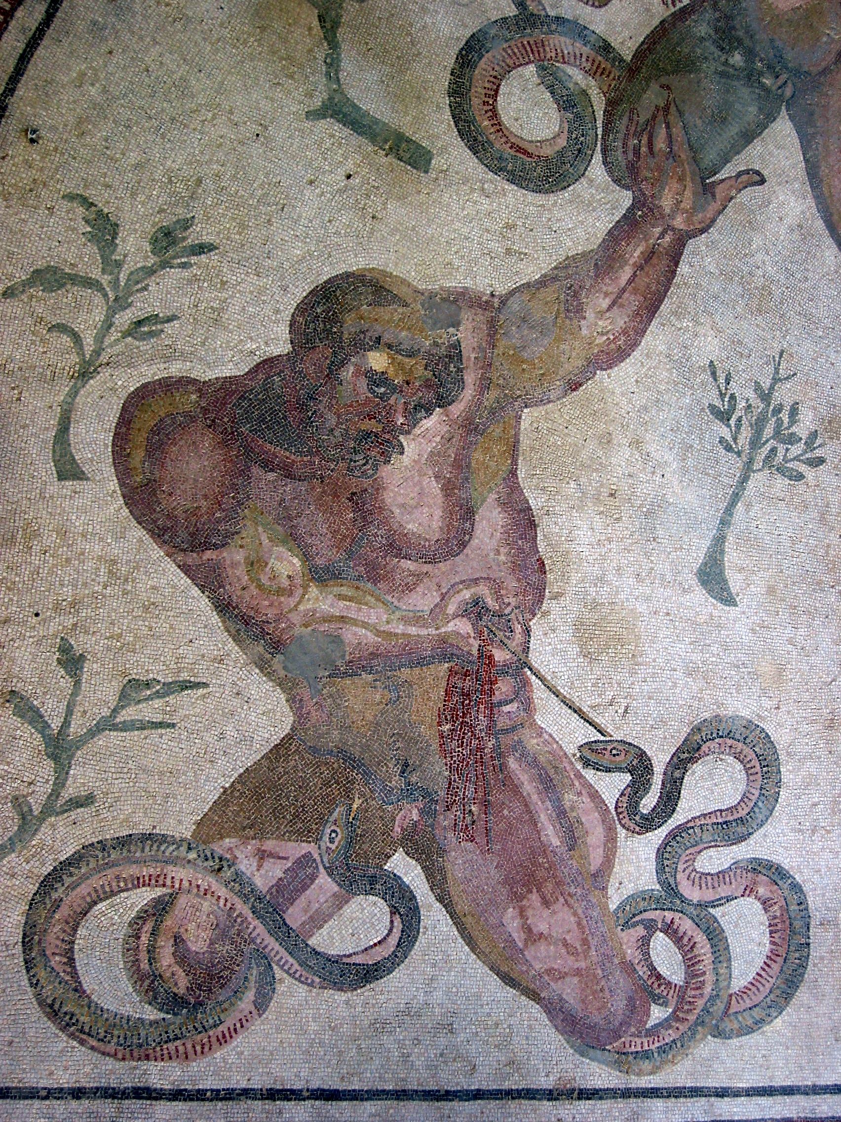 Gigante from a mosaic depicting the death of the giants in their war against the gods. The serpent-footed monster is pierced by an arrow. ca 320 AD. In Greek mythology the gigantes were (according to the poet Hesiod) the children of Uranus (Ουρανός) and Gaea (spirits of the sky and the earth). They were involved in a conflict with the Olympian gods called the Gigantomachy, which was eventually settled when the hero Heracles decided to help the Olympians. The Greeks believed some of them, like Enceladus, to lay buried from that time under the earth and that their tormented quivers resulted in earthquakes and volcanic eruptions. Villa Romana del Casale, Piazza Armerina, Sicily, Italy.